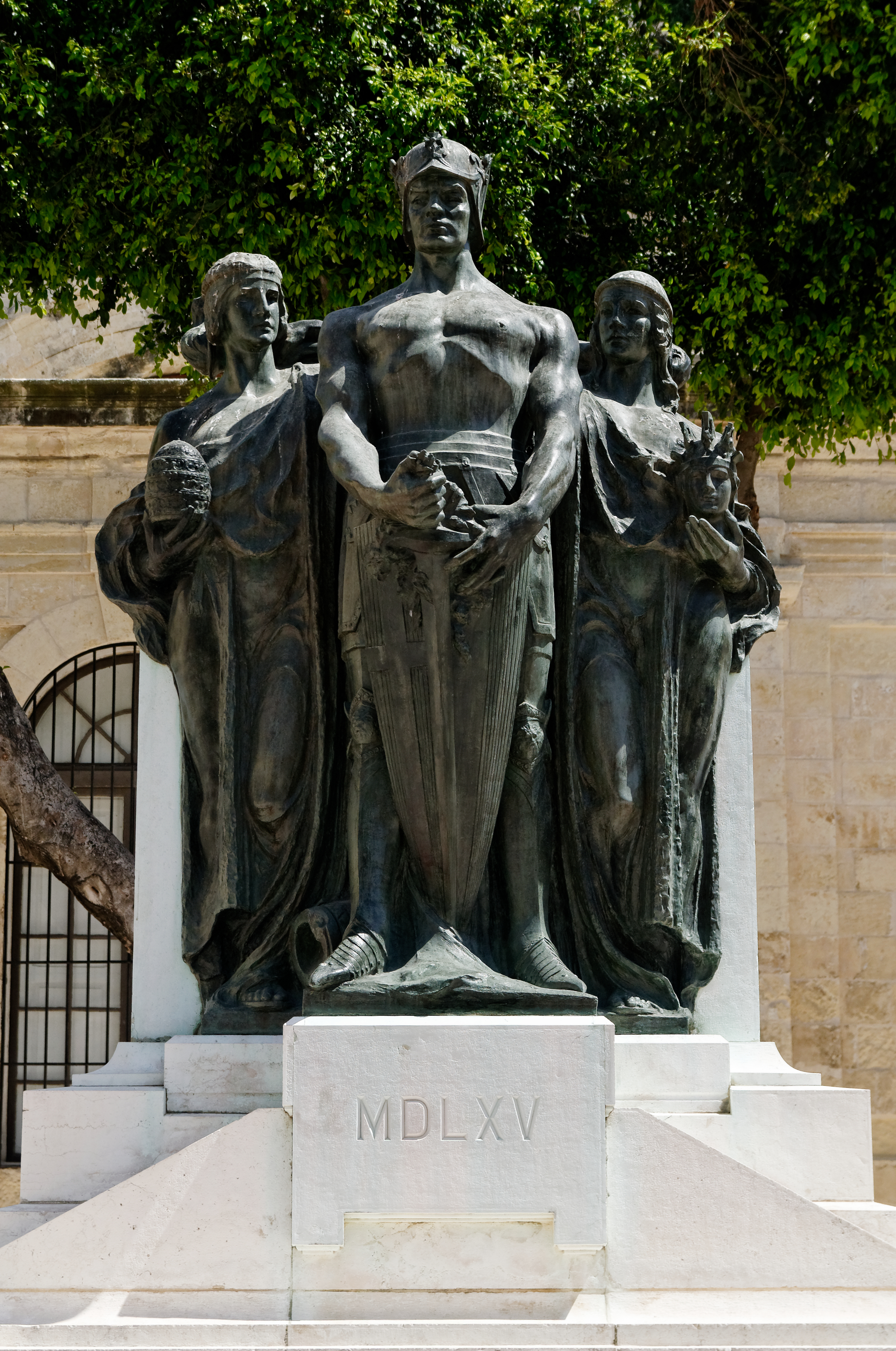 Great Siege monument by Antonio Sciortino (1927) on Triq Ir-Repubblika, Valletta, Malta.